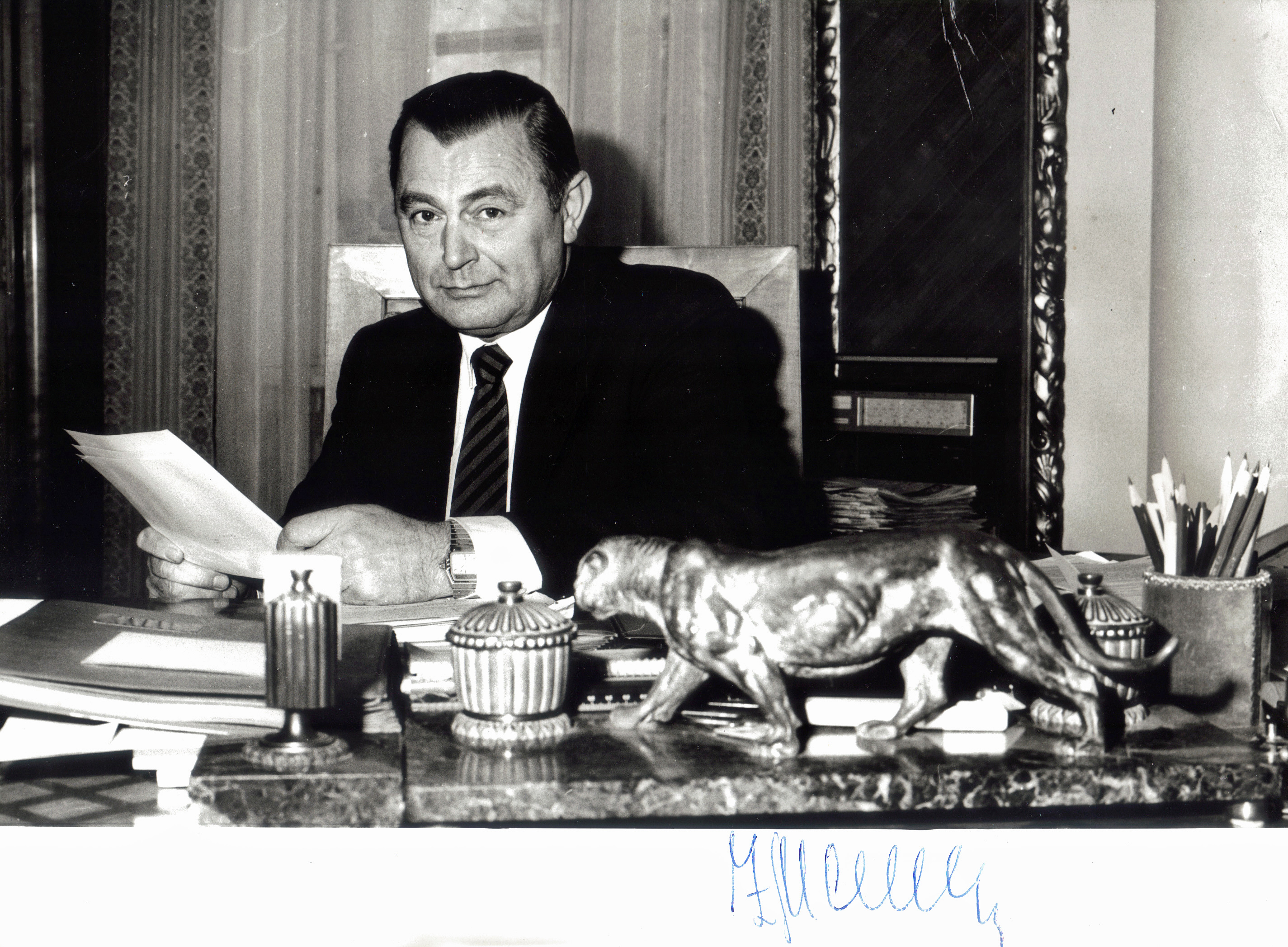 Zbigniew Messner, Prime Minister of the People's Republic of Poland